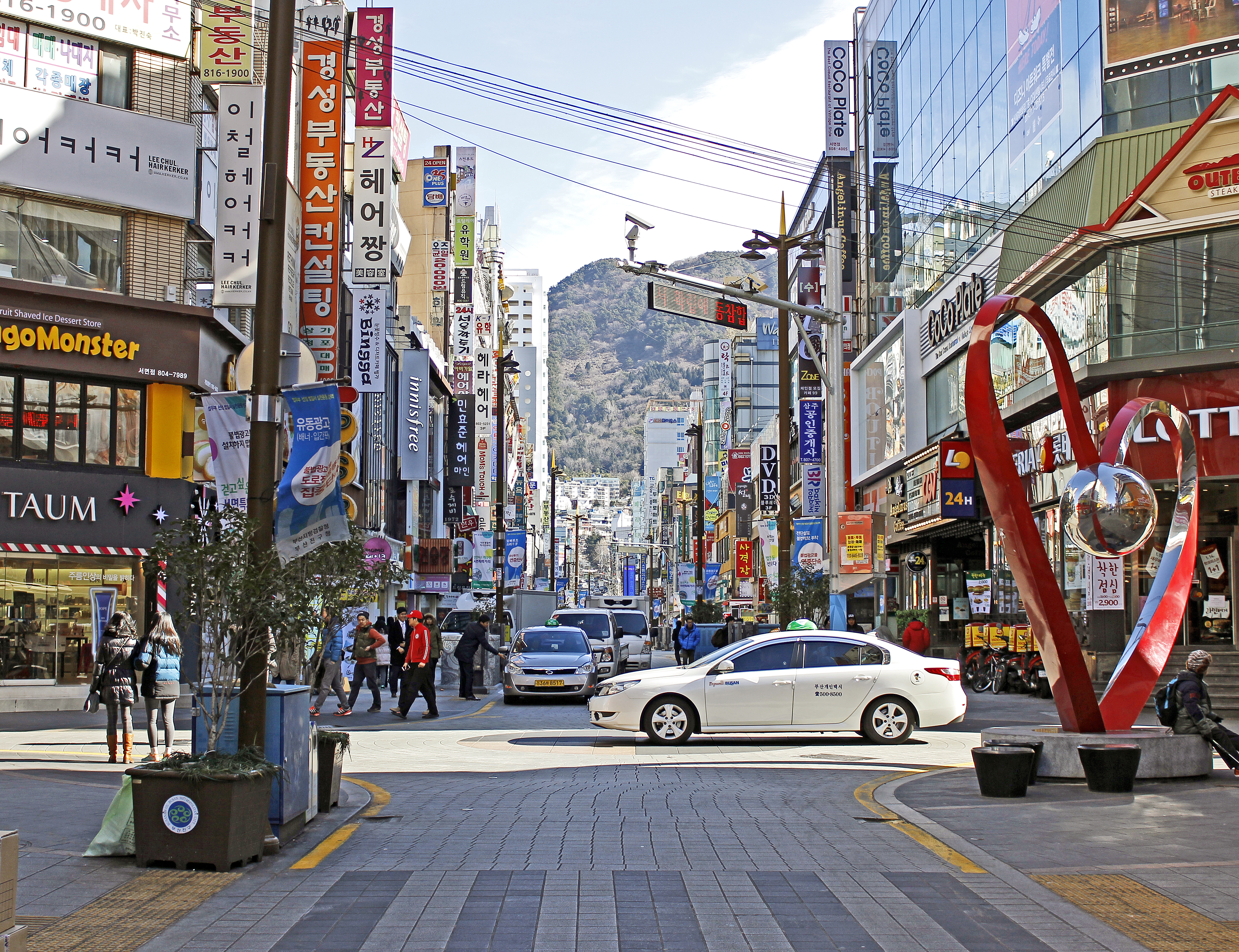 Seomyeon Street